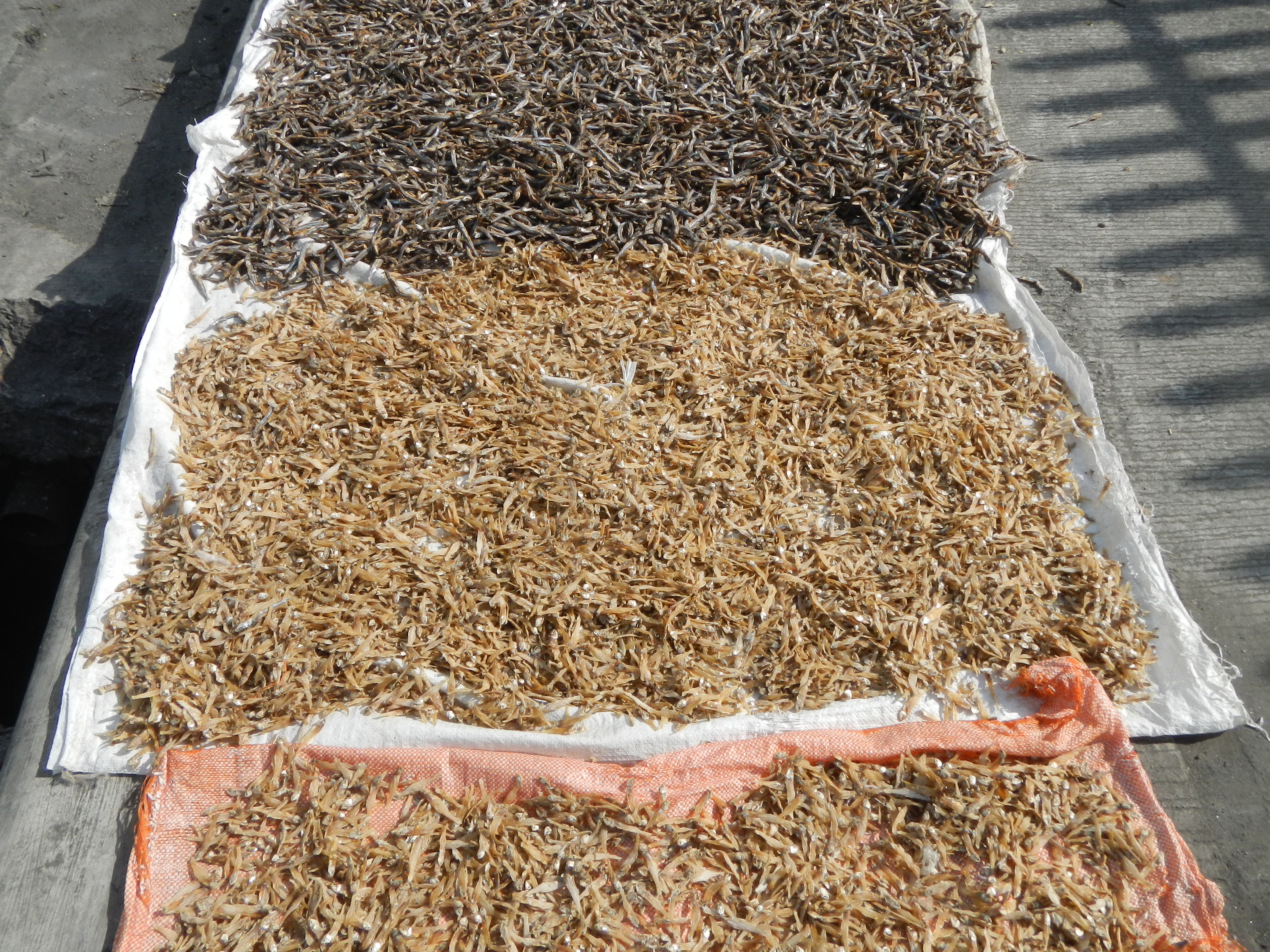 Anchovy Engraulis encrasicolus Dried fish in the Philippines